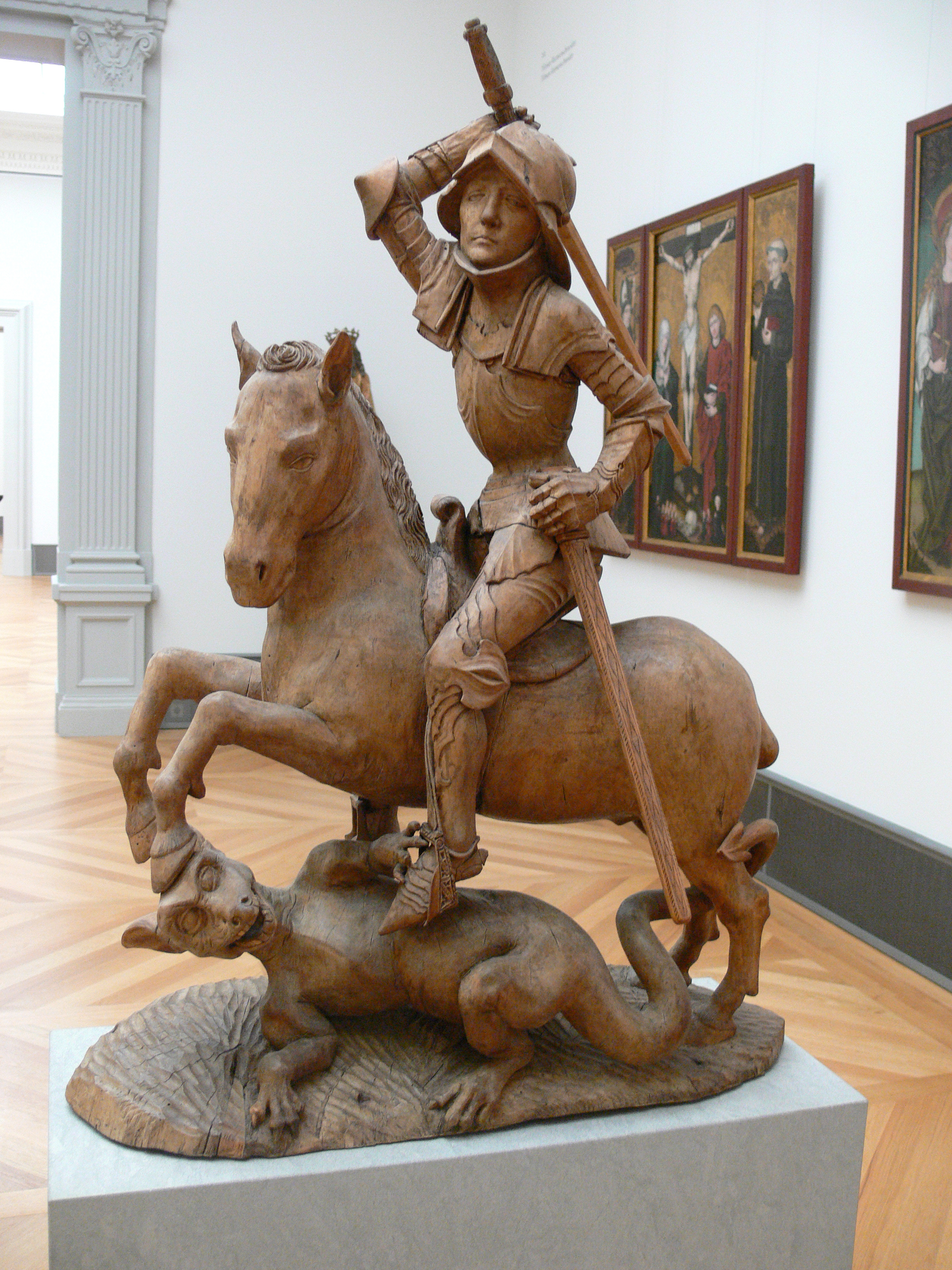 Tilman Riemenschneider: Saint George fighting the Dragon, c. 1490/1495, limewood. Skulpturensammlung (inv. no. 414, acquired in 1887).